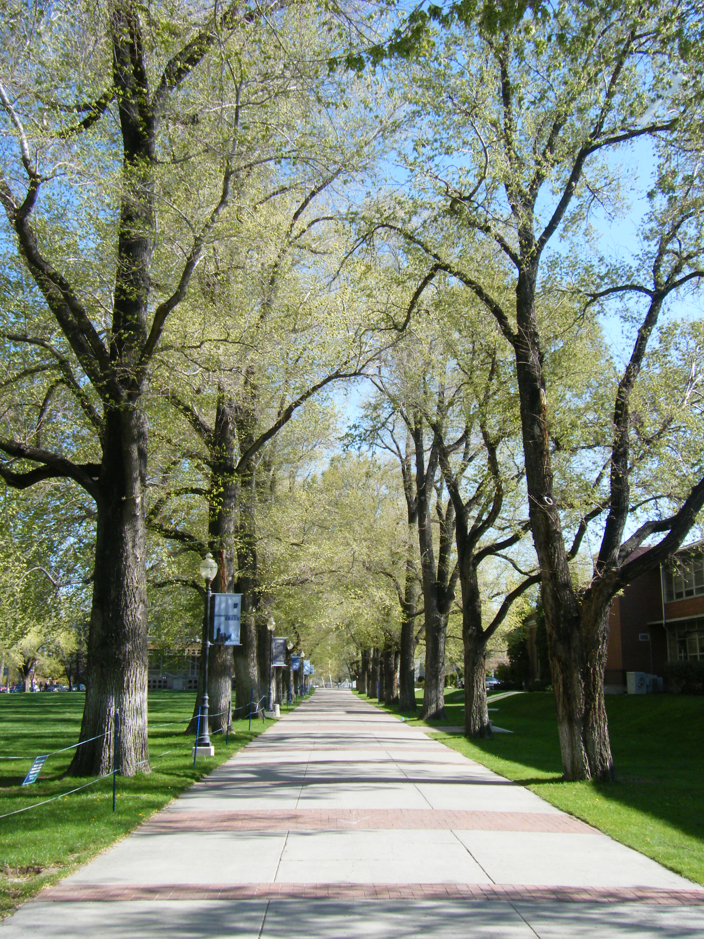 Image of a walkway on the main Quadrangle on the campus of the University of Nevada, Reno.